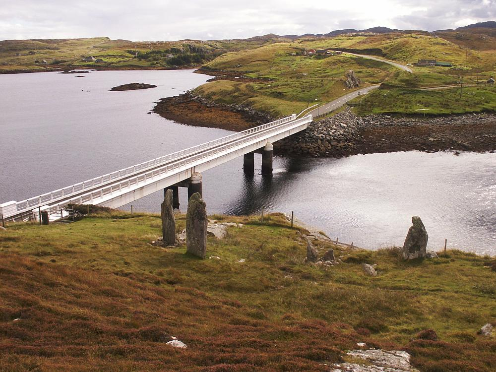 Callanish VIII stone circle.